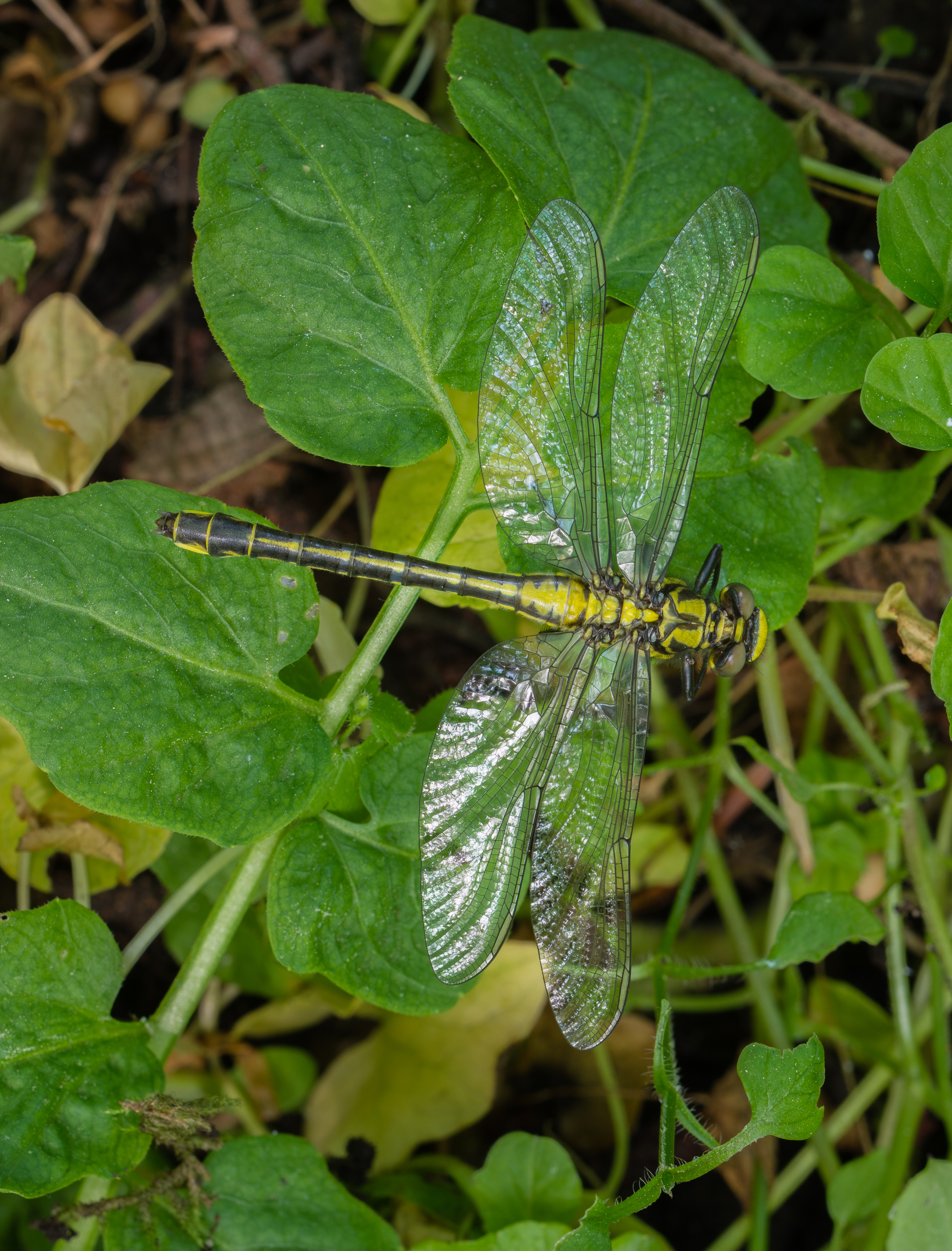 Common clubtail (Gomphus vulgatissimus) in Hesse, Germany.